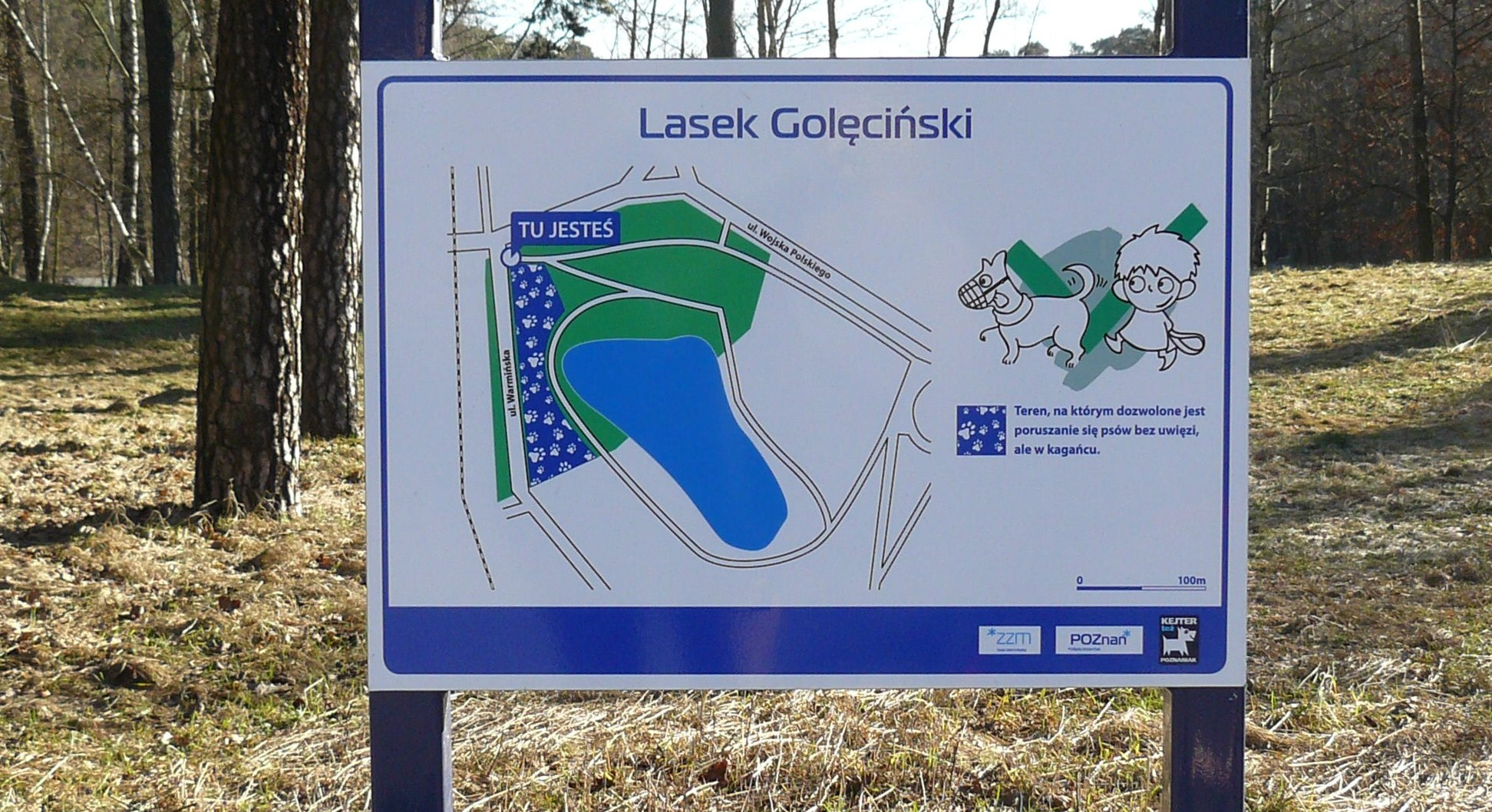 Golecinski Forest, Poznan.